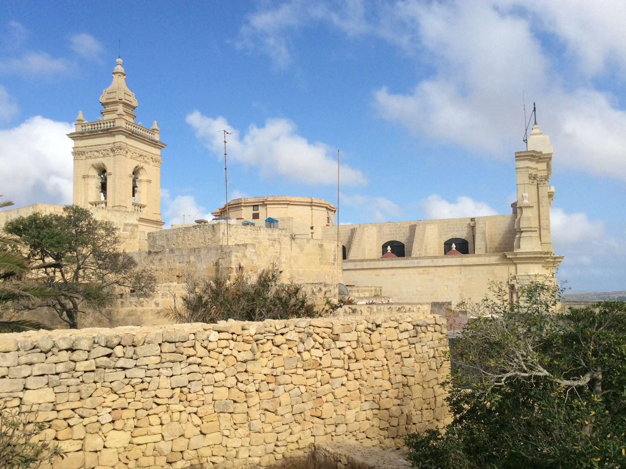 Cathedral of St.Mary This media is about Maltese cultural property with inventory number 00889.